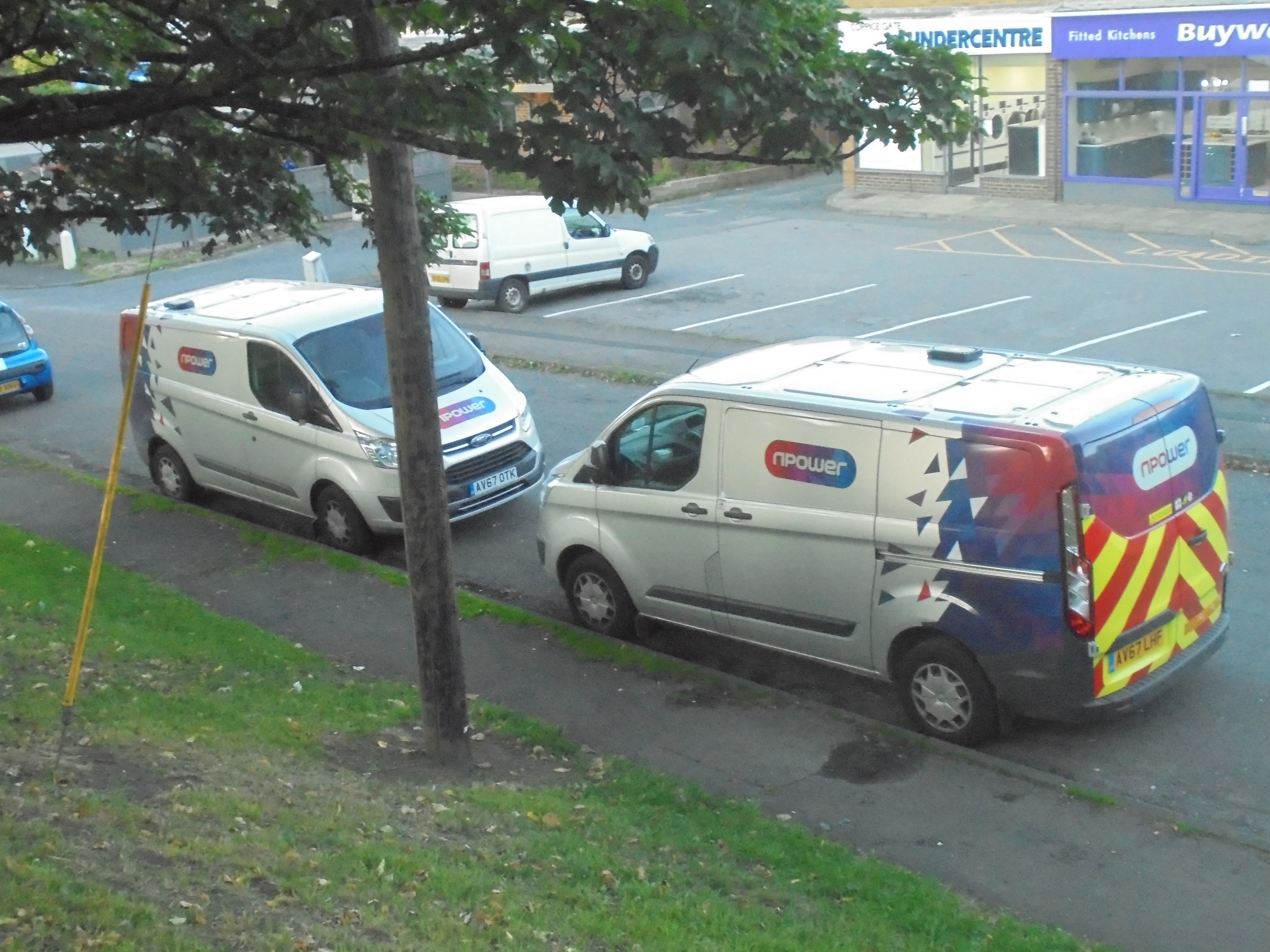 NPower Ford Transit vans, Coppice Gate seem from Ripon Road, Harrogate, North Yorkshire. Taken on the evening of Saturday the 12th of September 2018.